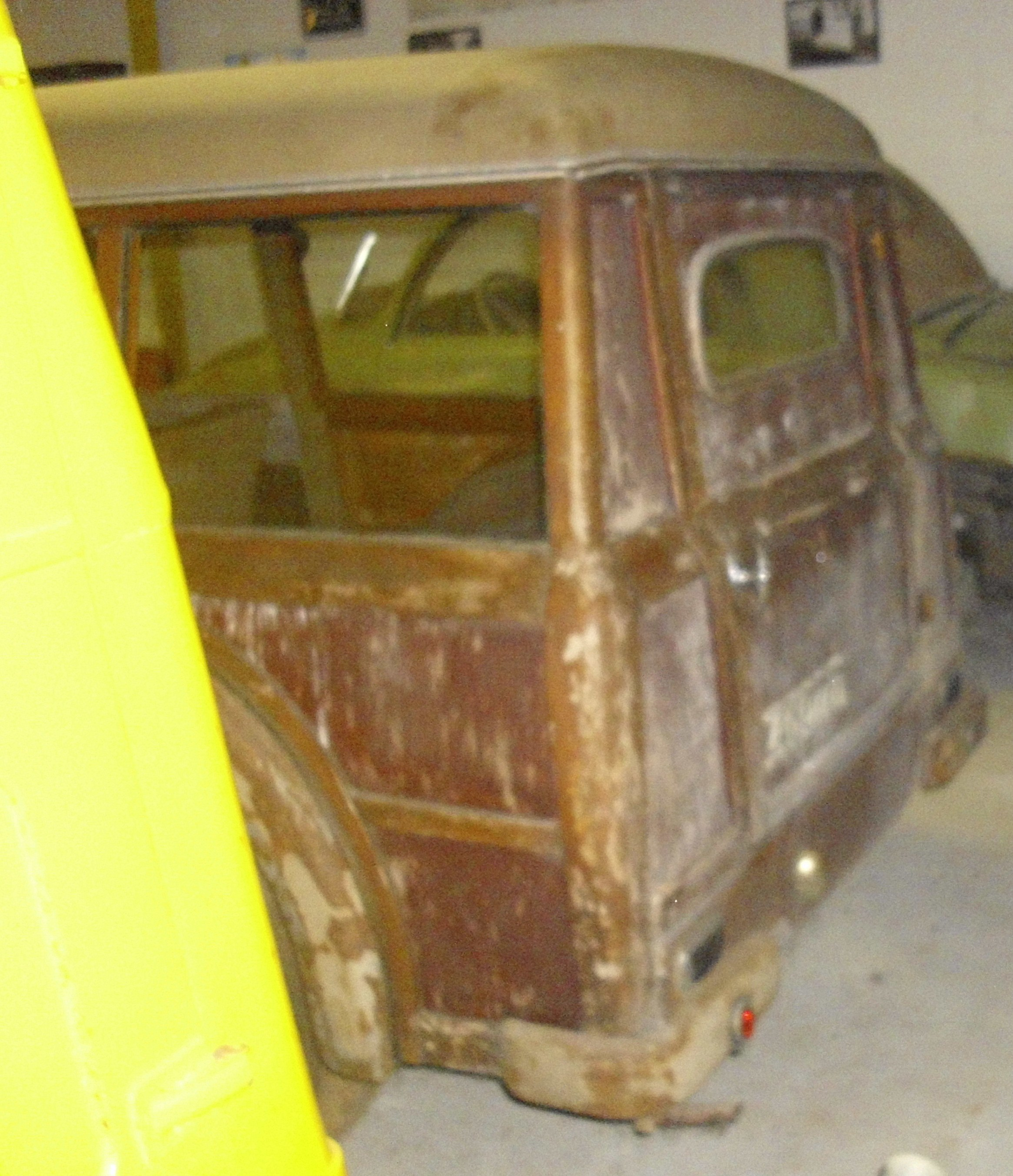 Champion 500 G 1954